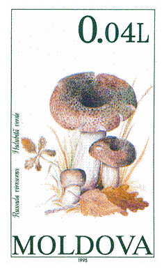 Russula. Russula virescens